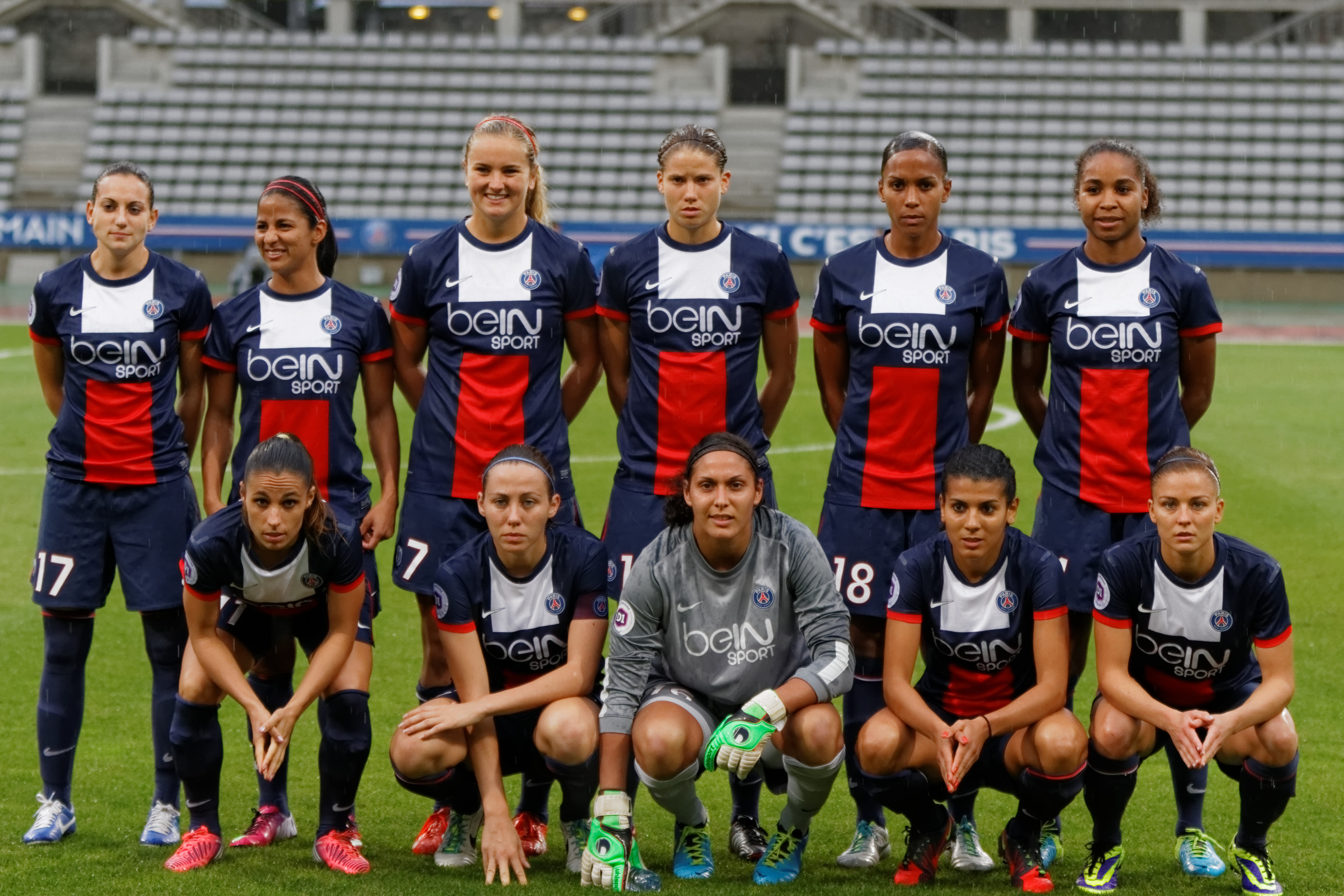 PSG-Lyon, September 29th, 2013.